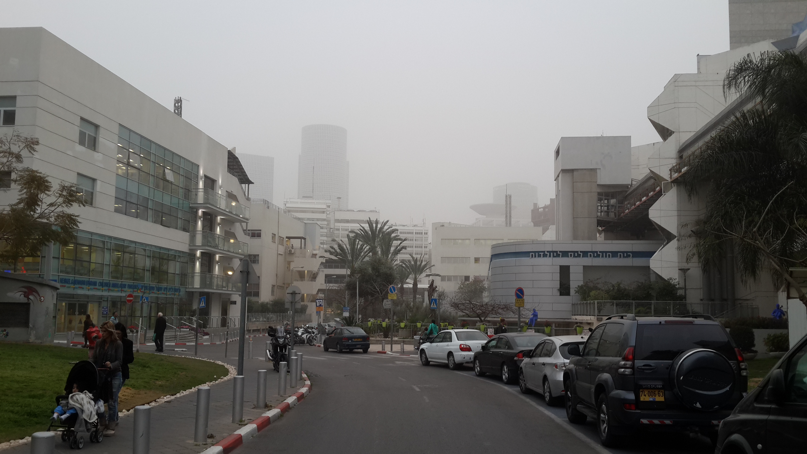 Dust storm in Tel Aviv